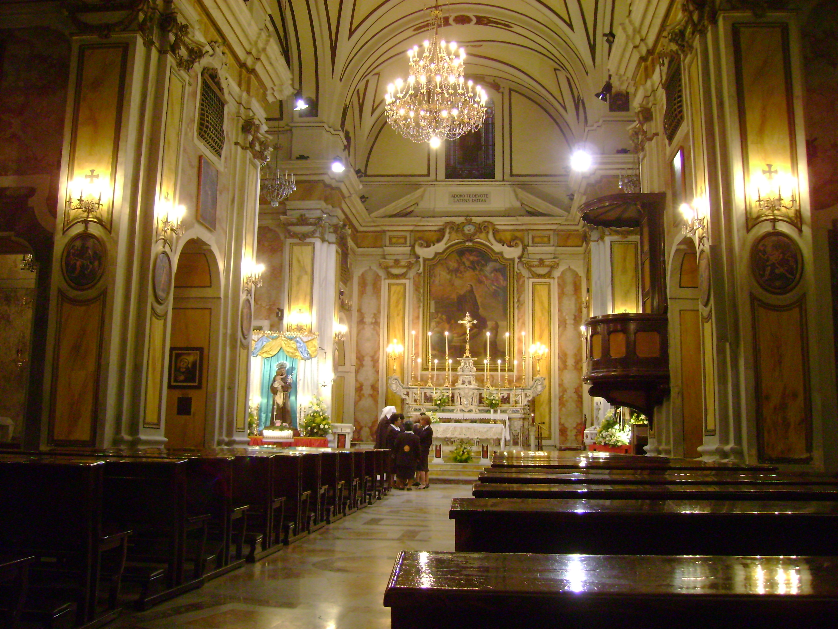 Church of St. Paschal in Taranto